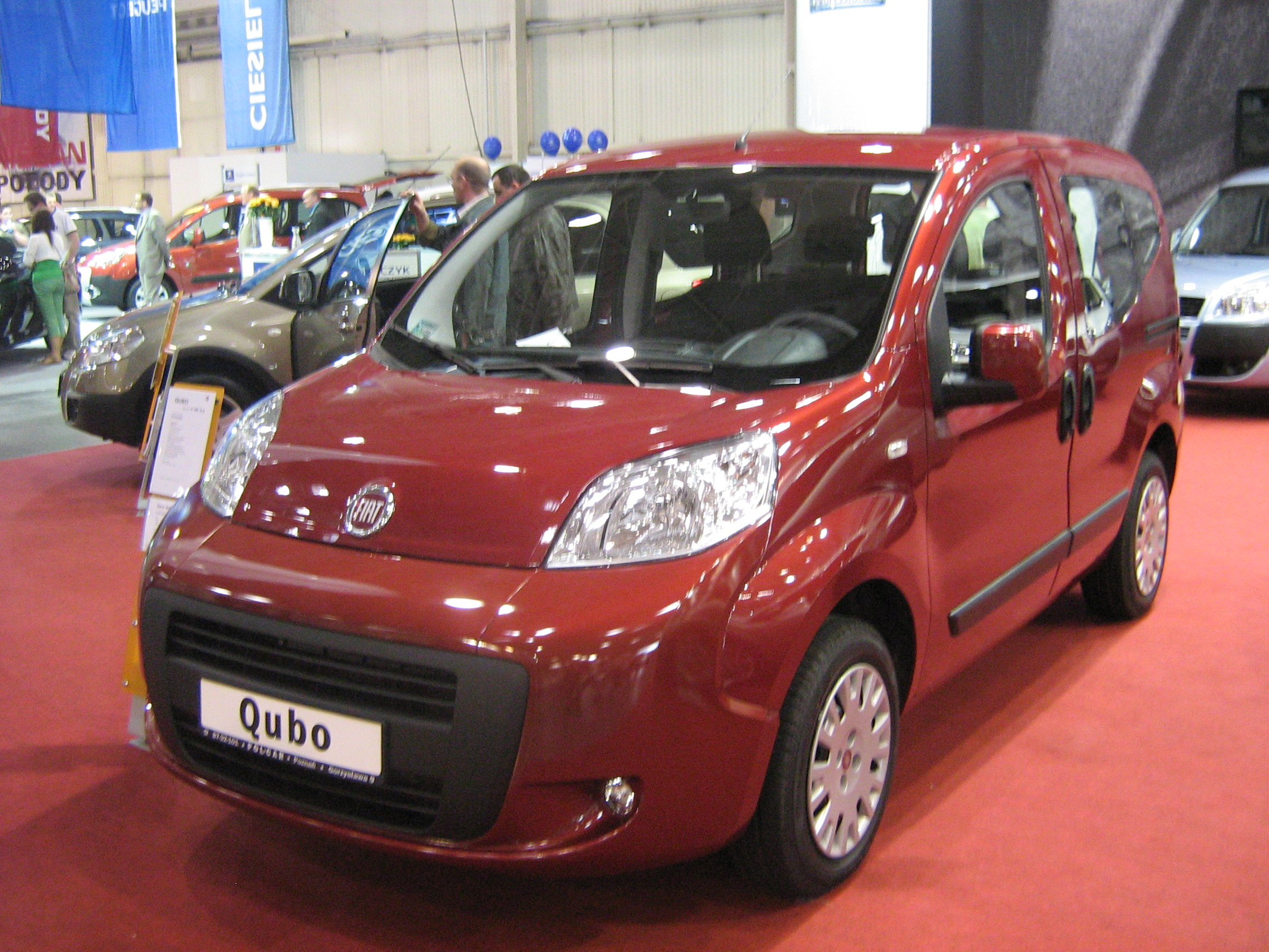 Fiat Qubo - PSM 2009 in Poznań, Poland.